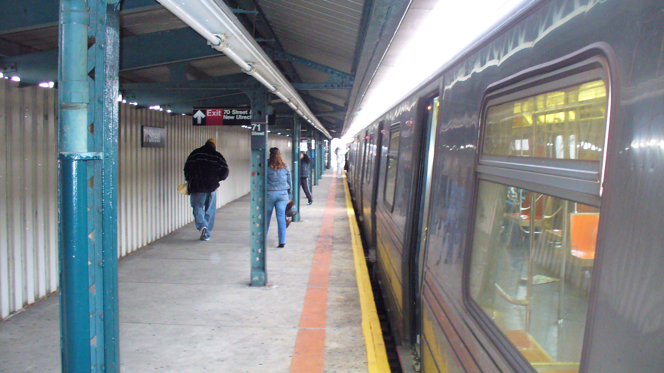 71st Street D Line NYC Subway Station by David Shankbone